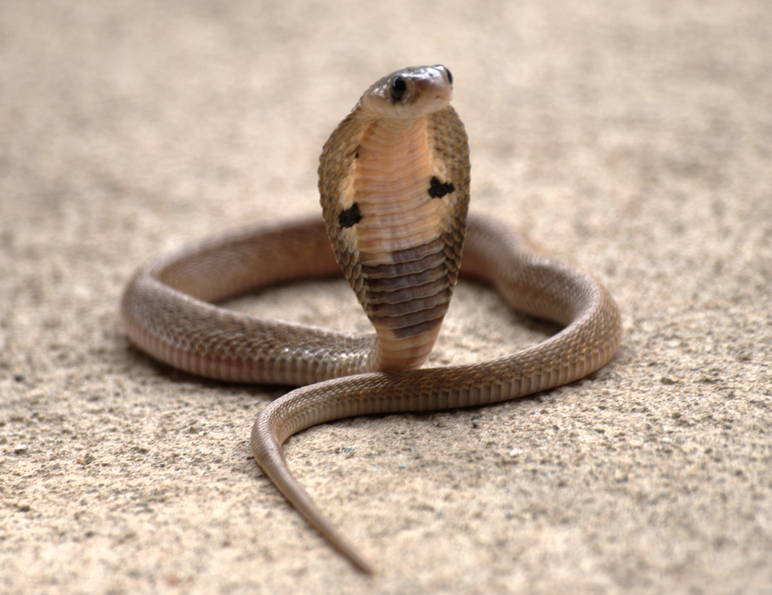 A juvenile Indian cobra (Naja naja) in Marathahalli, Karnataka, India.